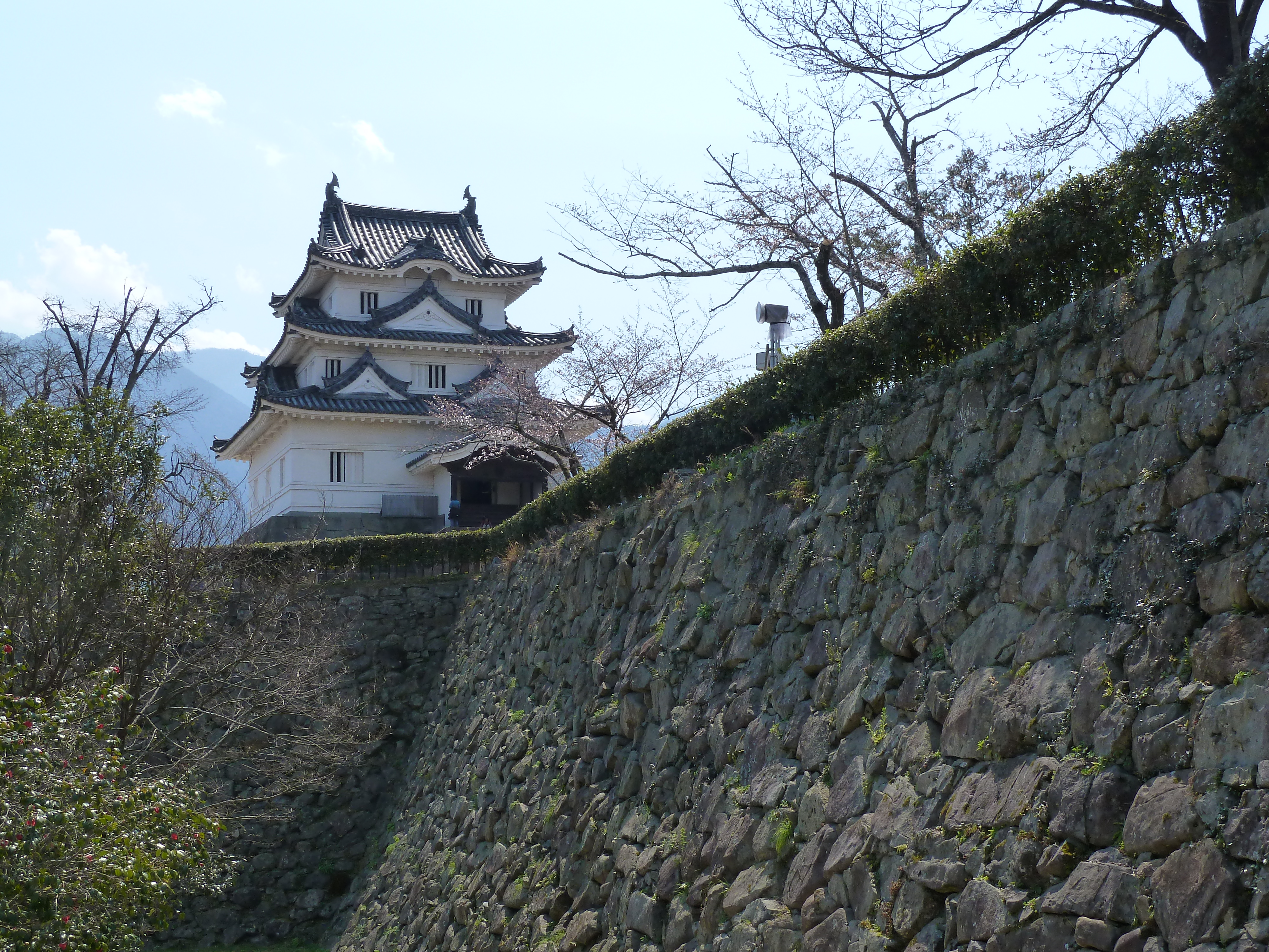 宇和島城の天守閣